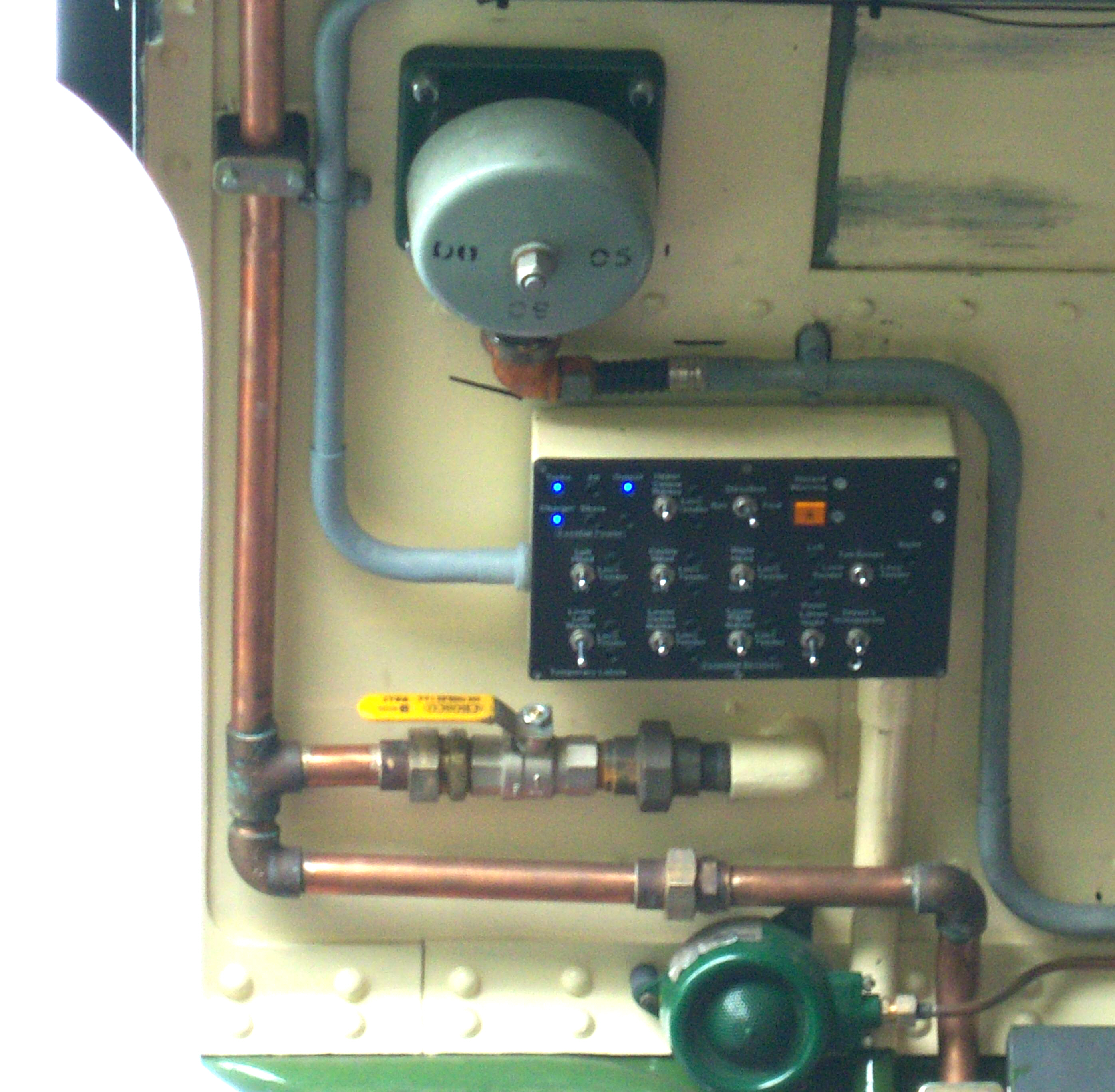 60163 Tornado cab electrics. While the loco at this point was still in works grey livery, the inside of the cab had already been finished in the apple green livery [1].